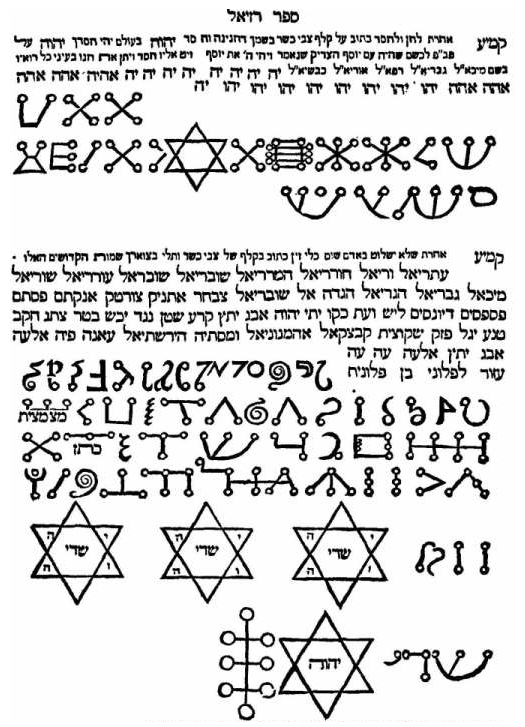 Sample page of Sefer Raziel HaMalakh, a medieval work of Jewish mysticism. No copyright.